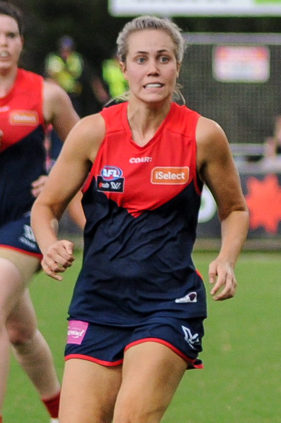 Elise Strachan during the AFL Women's round six match between Adelaide and Melbourne on 11 March 2017 at TIO Stadium in Darwin, Northern Territory